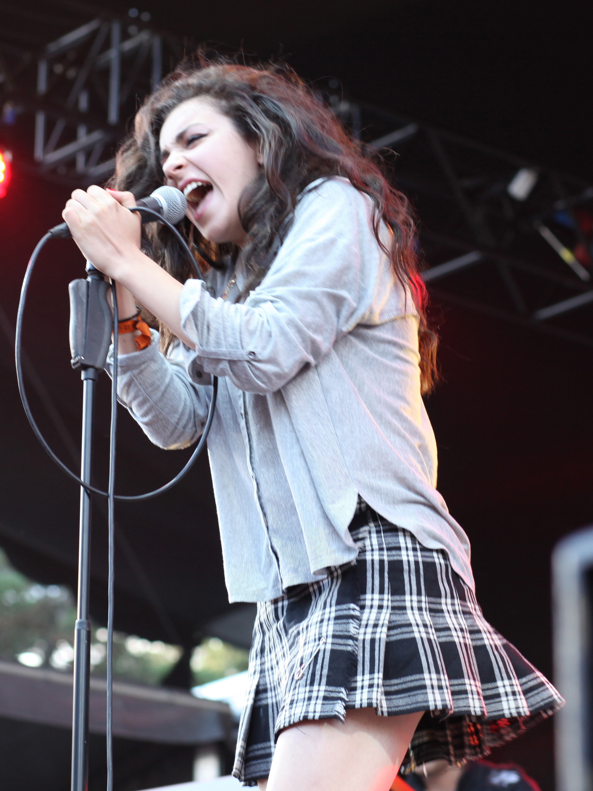 Charli XCX performing at the Postivus Festival.